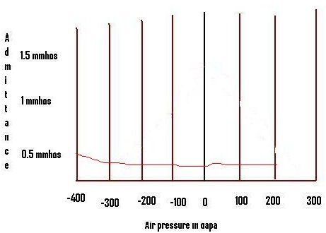 Dr. T. Balasubramanian